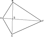 Quadrilateral